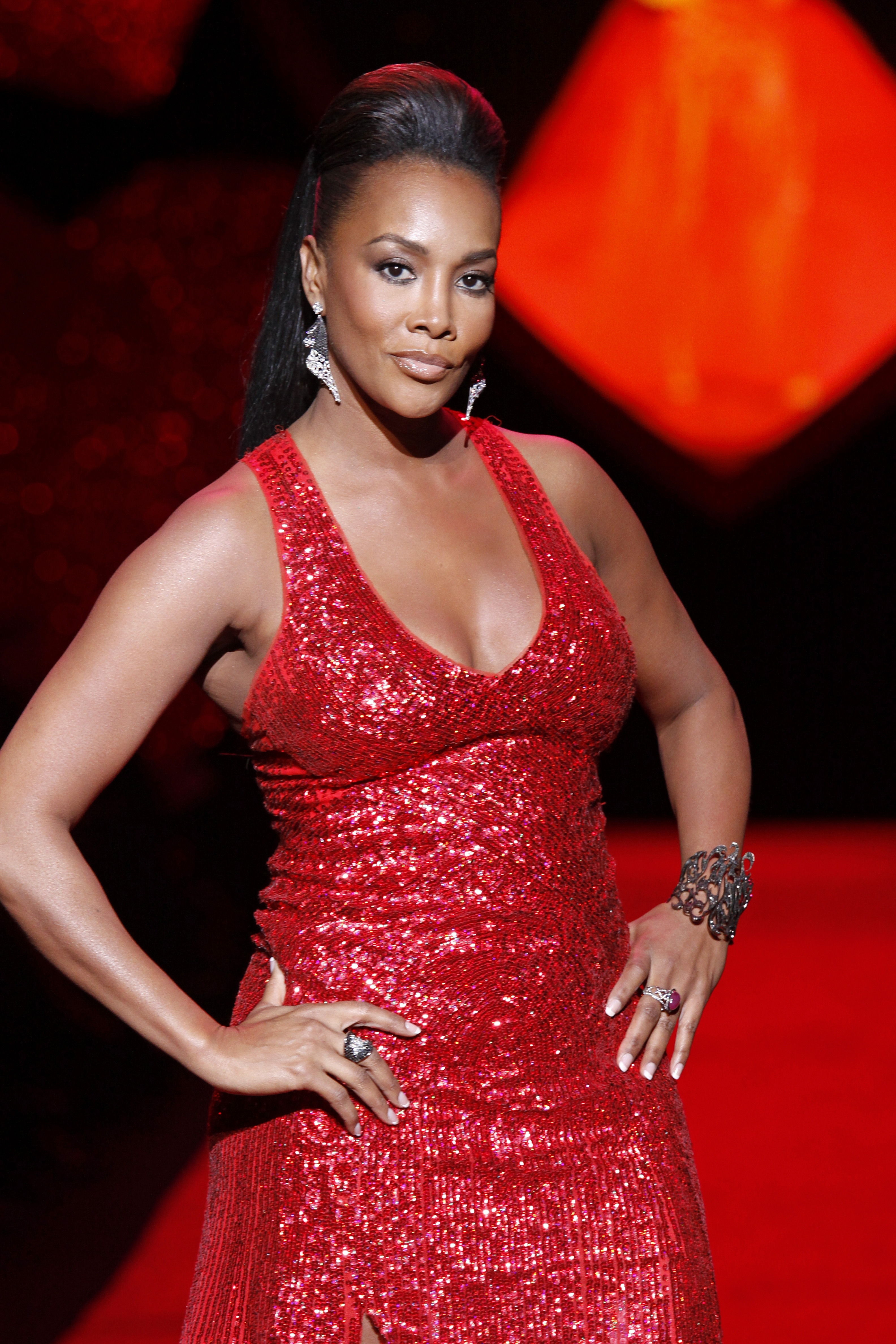 Backstage at The Heart Truth's Red Dress Collection Fashion Show during New York Fashion Week. February 13, 2009 at Bryant Park.